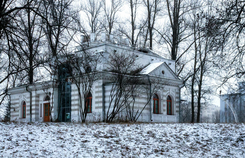 Manor of Adadurov ("White Dacha"), Minsk, Belarus